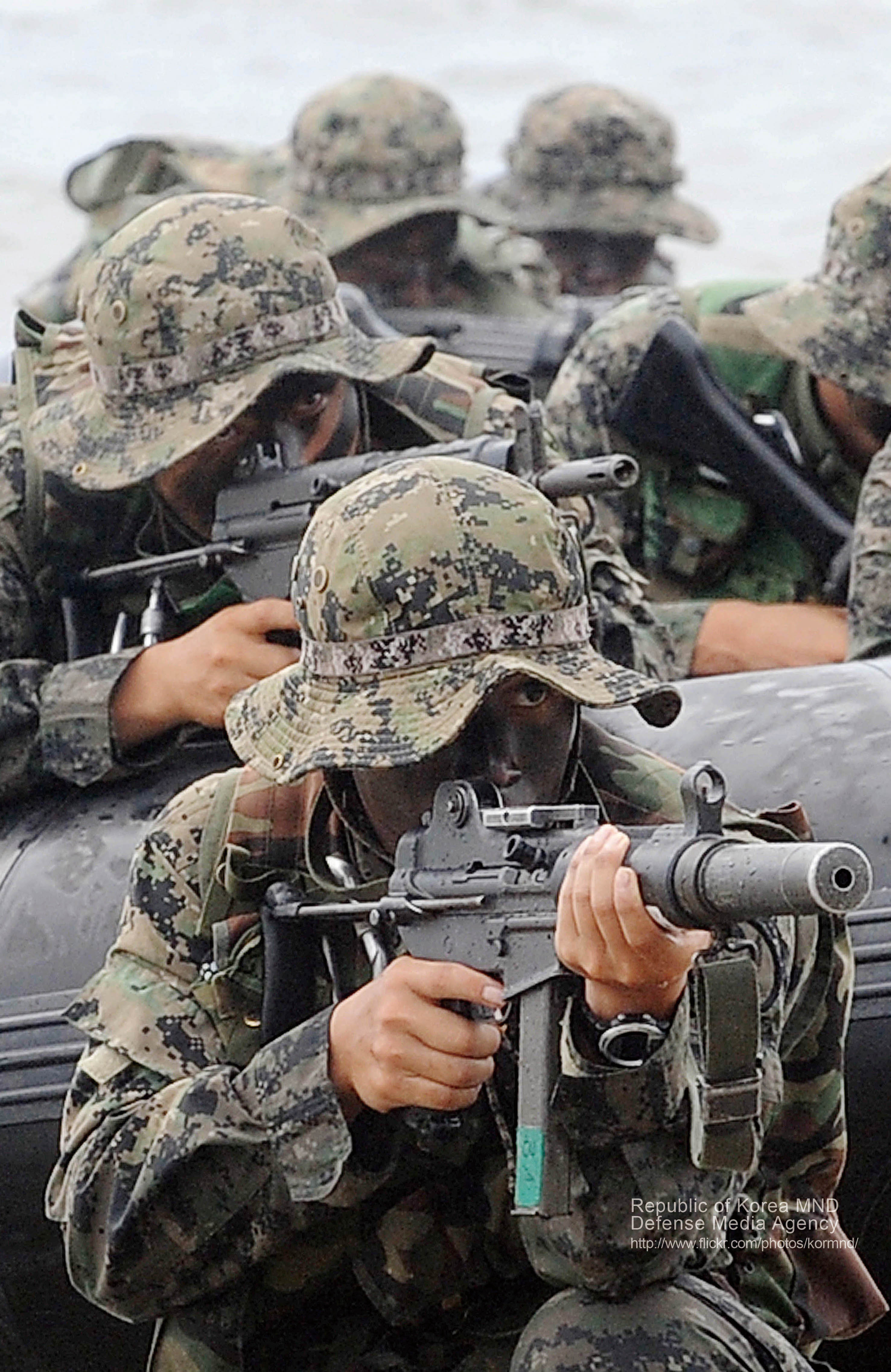 2010 국방화보 Rep. of Korea, Defense Photo Magazine 해상침투훈련에 나선 육군특전사 요원들이 고무보트를 이용, 해안으로 신속히 이동하고 있다. Members of the ROK Special Forces Command swiftly moving into the shore in participation of a coast infiltration exercise.